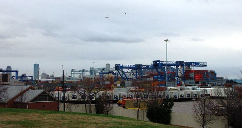 Conley Terminal Boston with container ship being unloaded, viewed from Castle Island